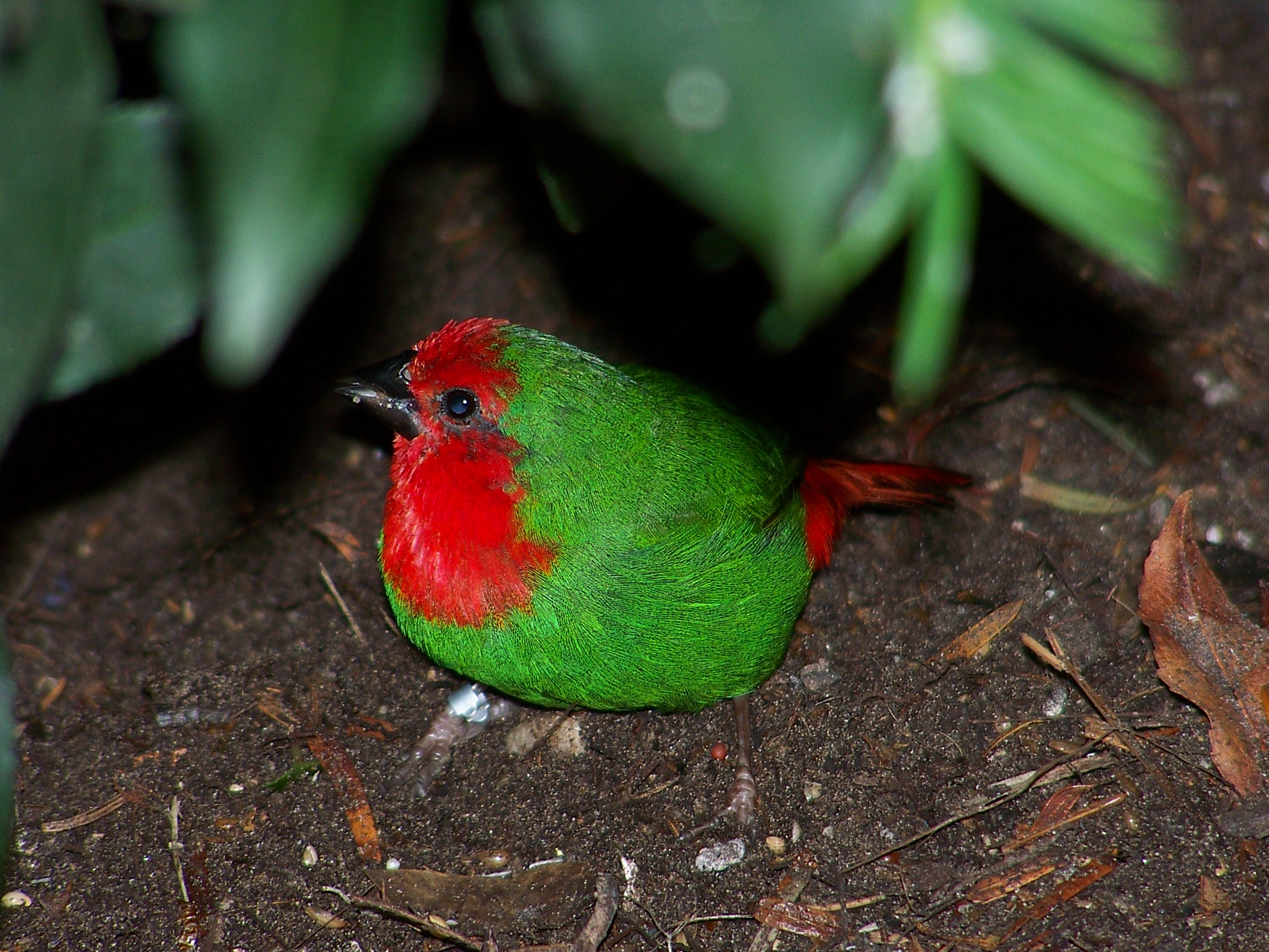 Red-throated Parrotfinch